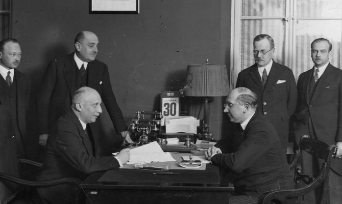 Foreign Ministers Lajos Walko and August Zaleski signed the Hungarian-Polish Treaty in December 1928 in Warsaw.